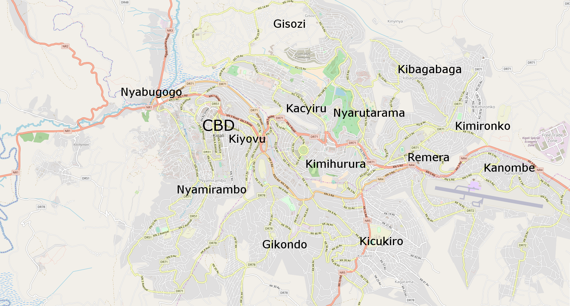 A map of the city of Kigali, Rwanda, showing major suburbs This map may be incomplete, and may contain errors. Don't rely solely on it for navigation.